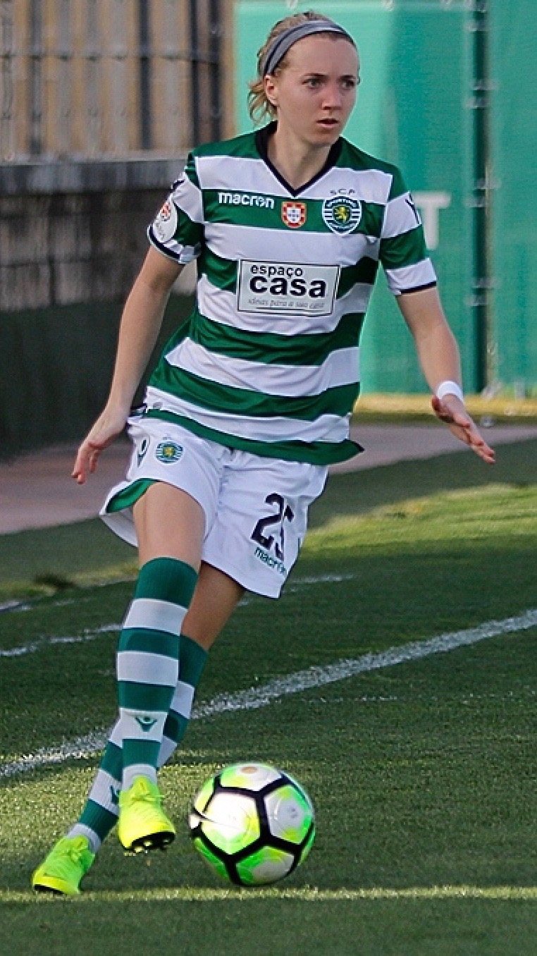 Sydney Blomquist playing for Sporting Clube de Portugal